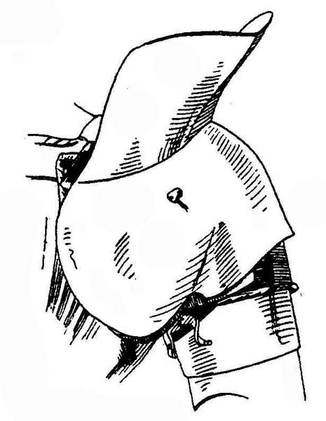 Verstärkte Achsel mit Brechrand zum Gestech